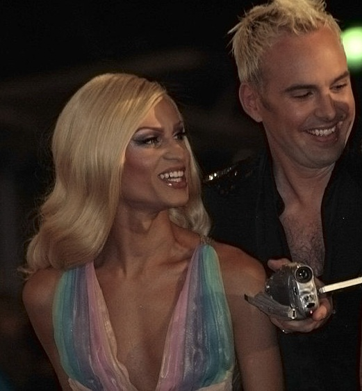 Patricia Field with Phillipe and David Blond (The Blonds) at the Life Ball 2009, Rathaus, Vienna.